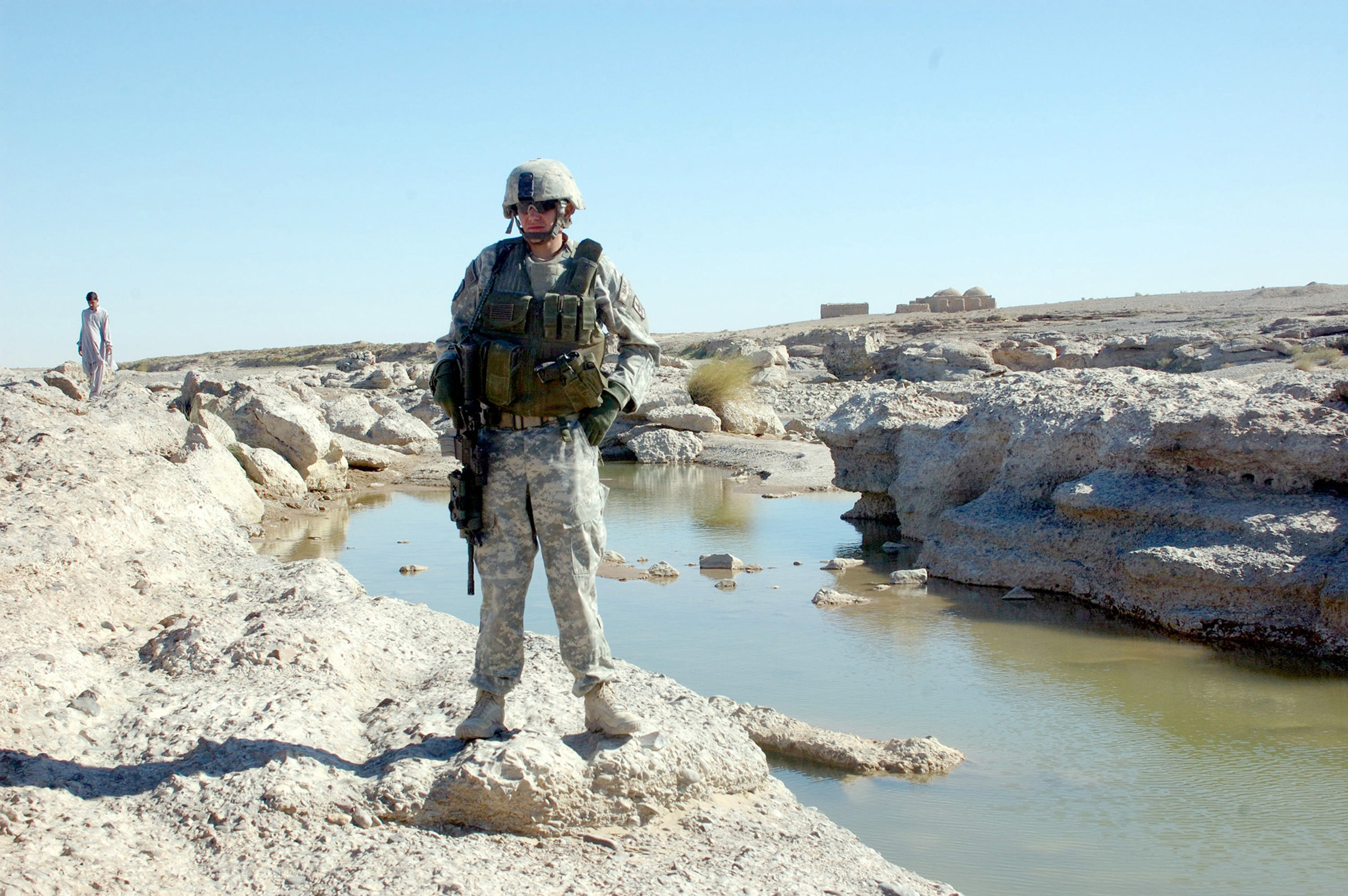 Engineers survey the site of the future Tojg Bridge, which will span the Farah Rud River in Afghanistan. Defense Department photo